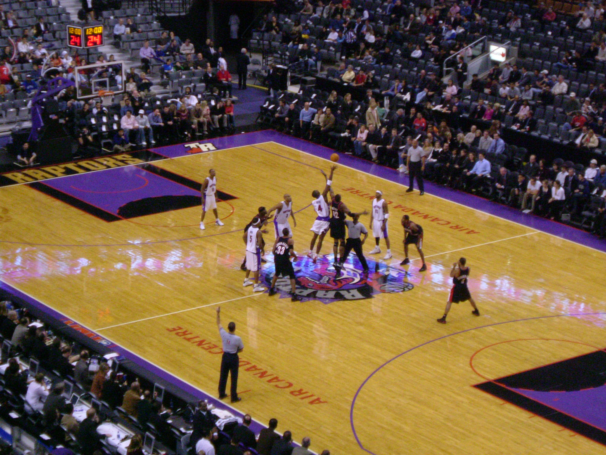 jump ball at a preseason portland trail blazers at toronto raptors game